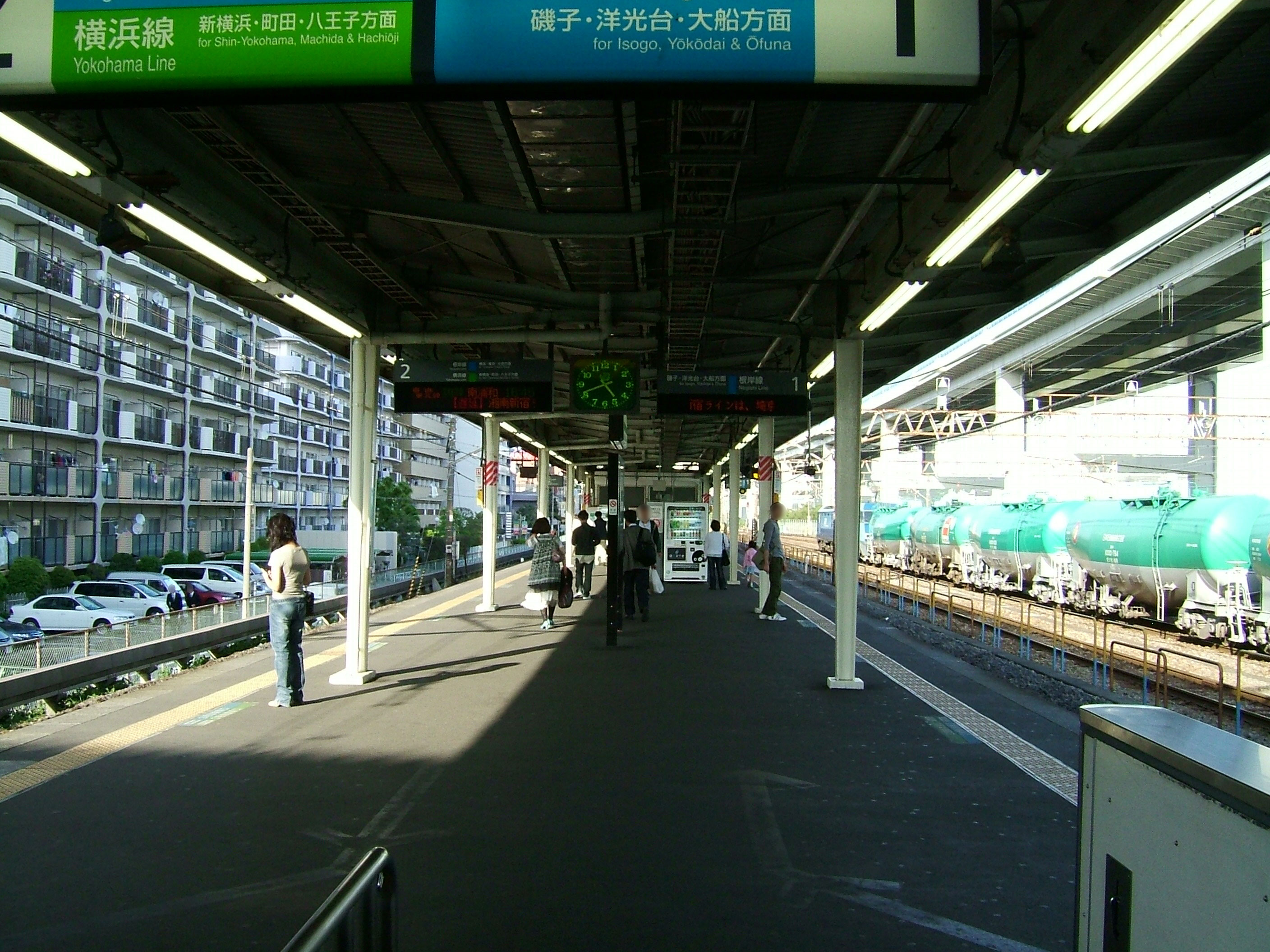 Negishi Station building (East Japan Railway Negishi Line)